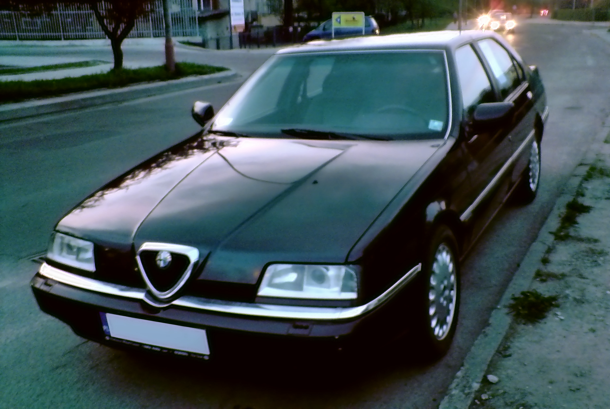 Alfa Romeo 164 3.0 V6 seen in Jasło, Poland